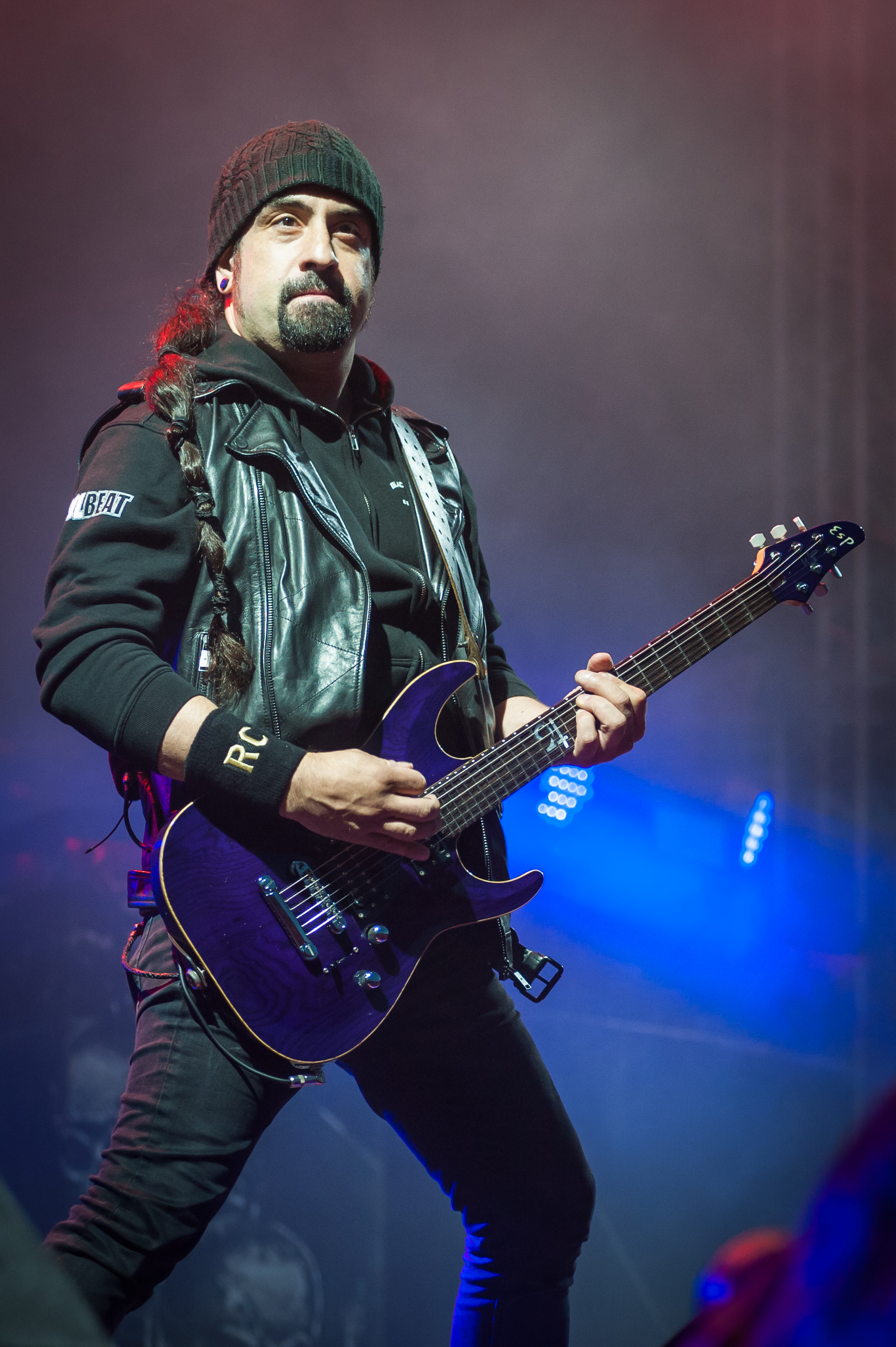 Danish rock band Volbeat performing at the Ilosaarirock festival in Joensuu Finland.